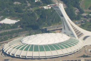 Montreal Stadium - 2004 from airplane I, the creator of this work, hereby publish it under the following licence: Permission is granted to copy, distribute and/or modify this document under the terms of the GNU Free Documentation License, Version 1.2 or any later version published by the Free Software Foundation; with no Invariant Sections, no Front-Cover Texts, and no Back-Cover Texts. A copy of the license is included in the section entitled "Text of the GNU Free Documentation License." This is a retouched picture, which means that it has been digitally altered from its original version.